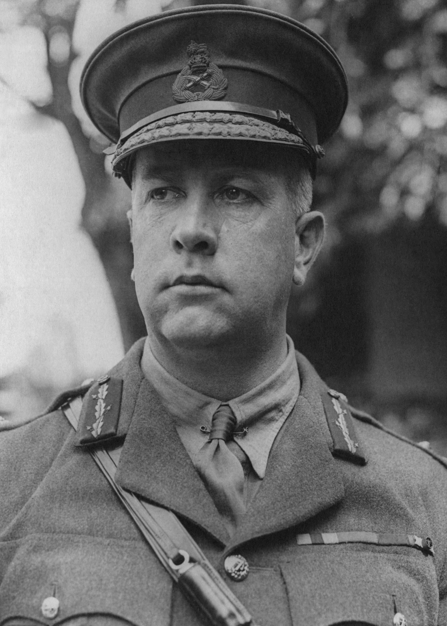 General Currie, Commander of the Canadian troops in France, and A.D.C